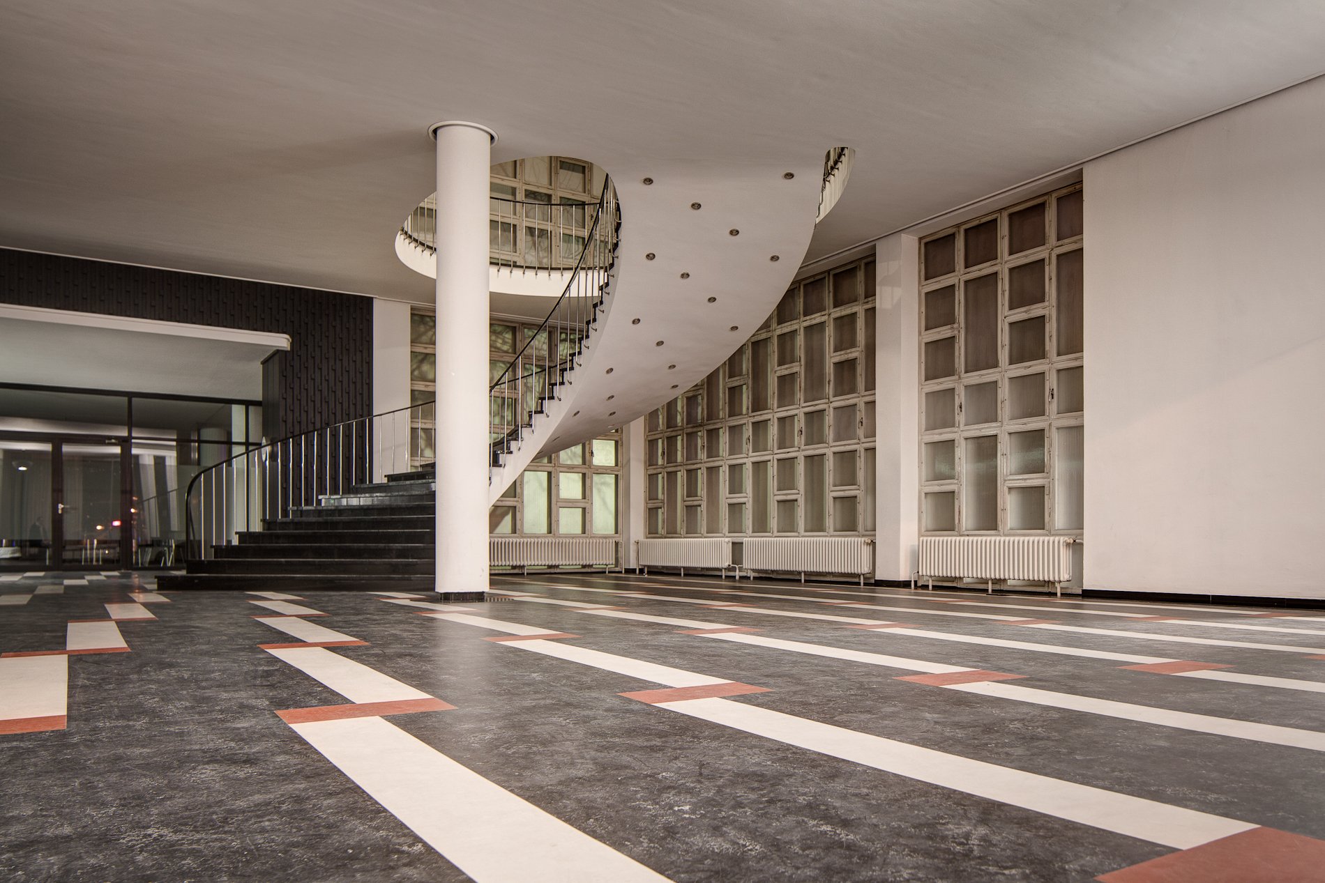 Entrance hall of the administration building of the former Continental headquarters.